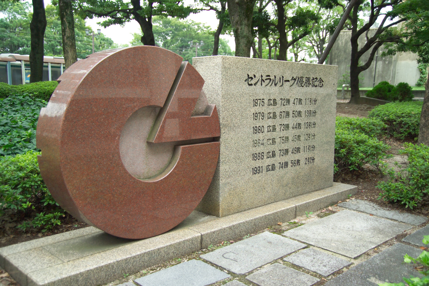 Hiroshima Carp, Central League Champions. On grounds of Hiroshima Shimin Kyujo, Hiroshima, Japan. I took the photo.